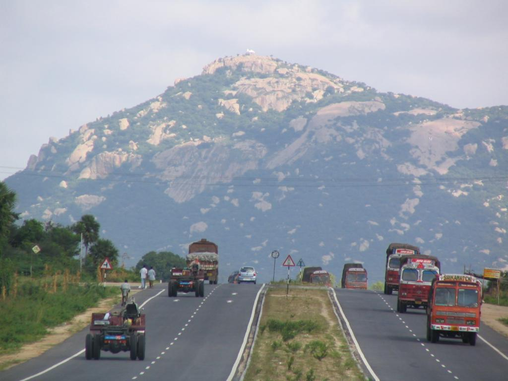 Babu, Internet, , own-shoot Sathishbabu 11:31, 4 April 2011 (UTC)